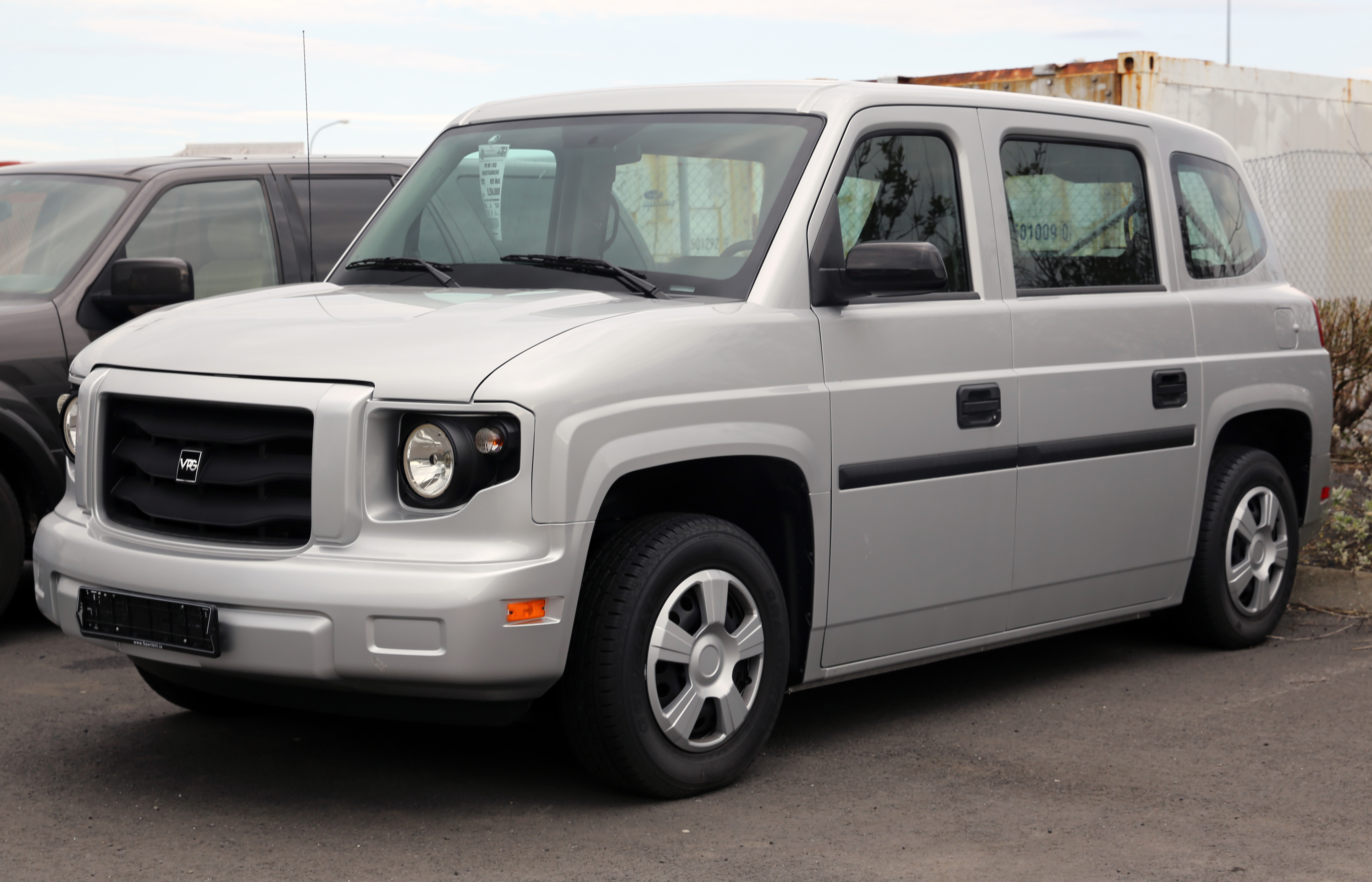 2012 MV-1 handicap vehicle, in a port quarter of Reykjavík, Iceland.